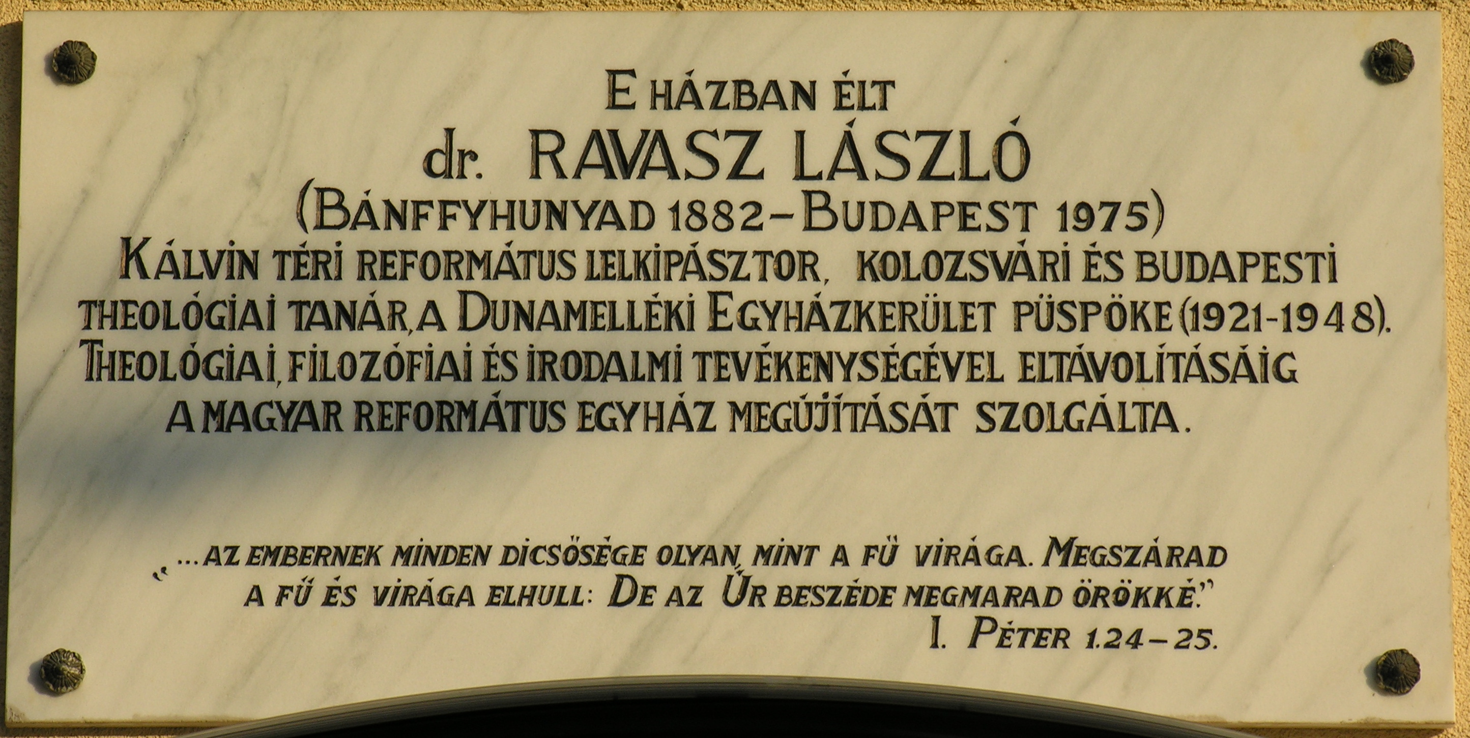 Commemorative plaque to Mr. László Ravasz (1882–1975) Hungarian Reformed bishop, affixed to the wall of his former domicile. (Budapest, District II, Bimbó Avenue Nr 43).